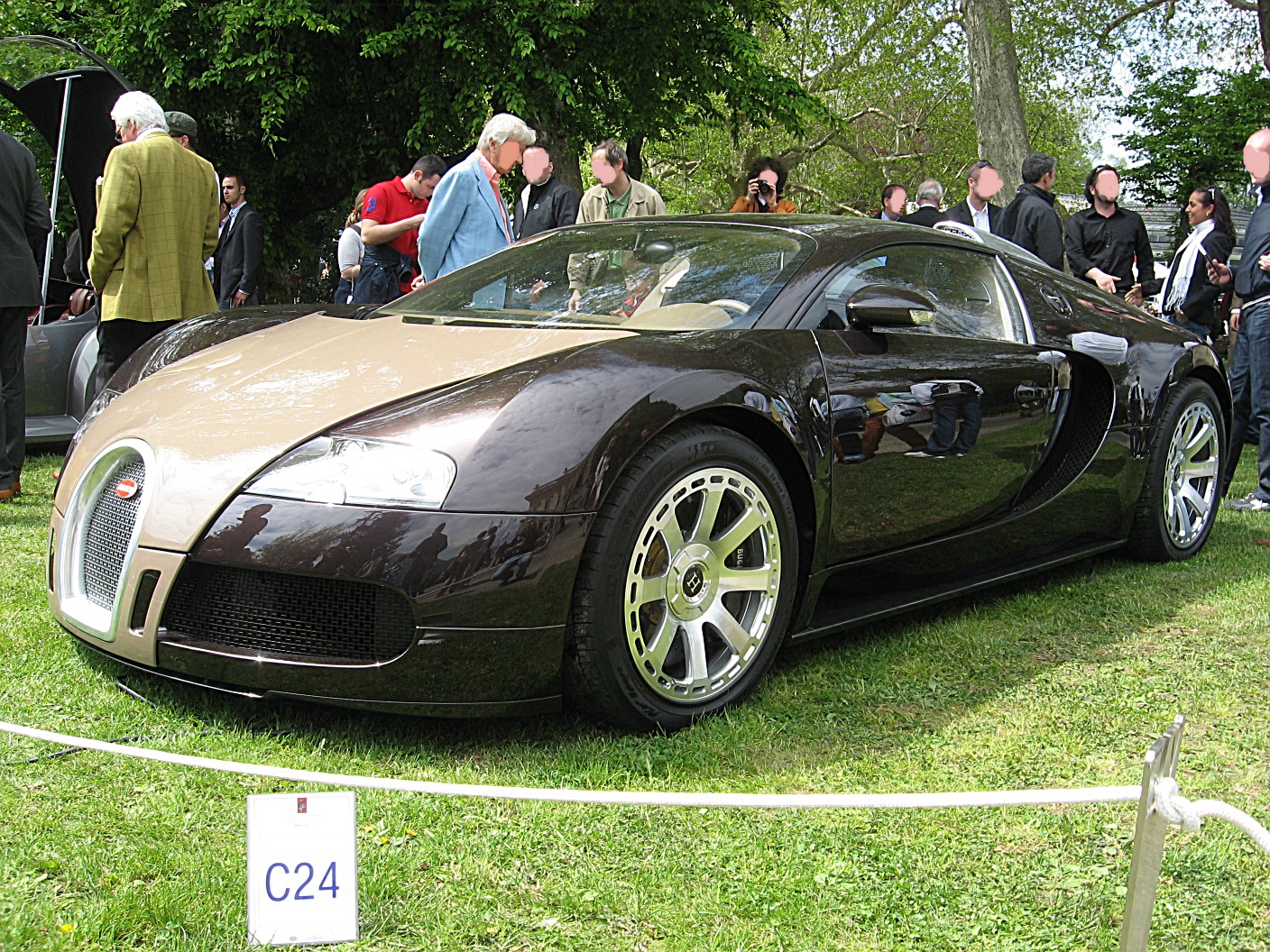 Subject:Bugatti Veyron Hermès Date:April 27th, 2008 Event:Concorso d’Eleganza”Villa d’Este” 2008 Place/Country: Cernobbio (CO), Italy I release all rights in the public domain.